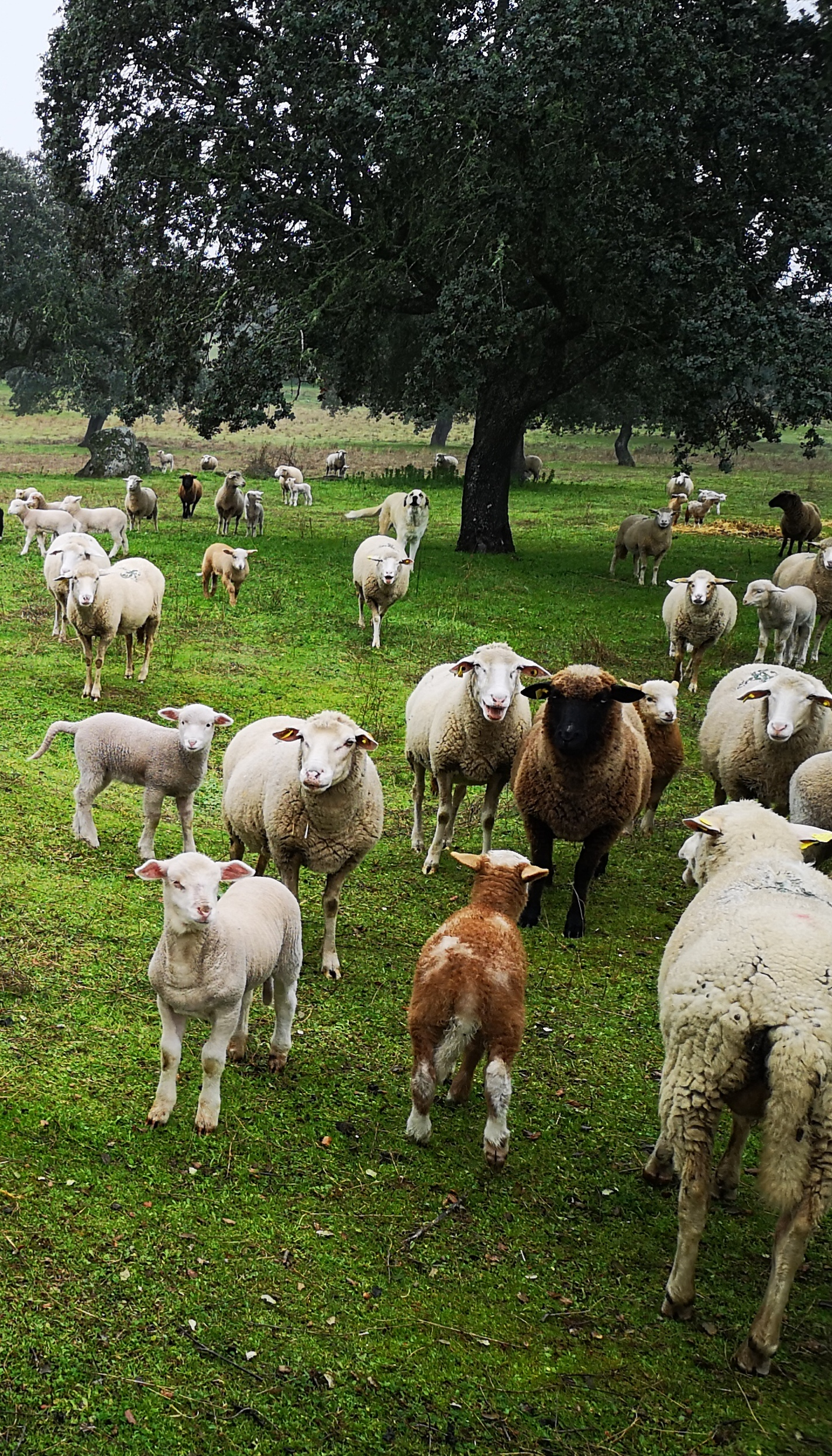 Ships